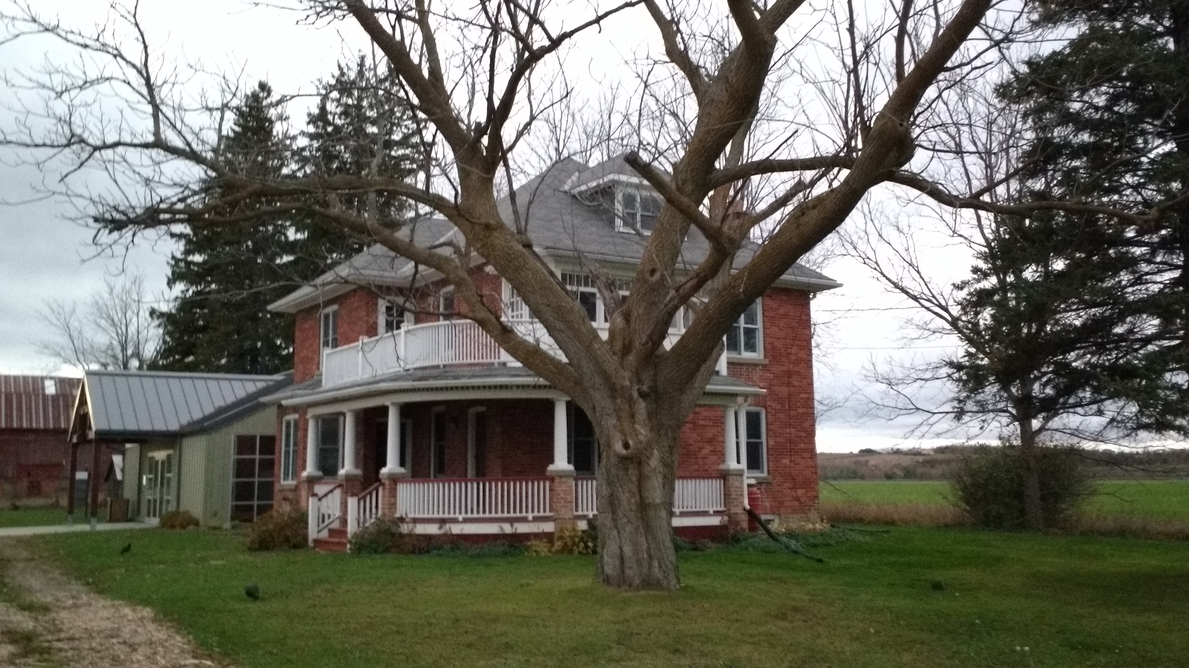 House and farm where Frederick Banting was born. Next to the house is an interpretive center. Next the center is a small drive shed.